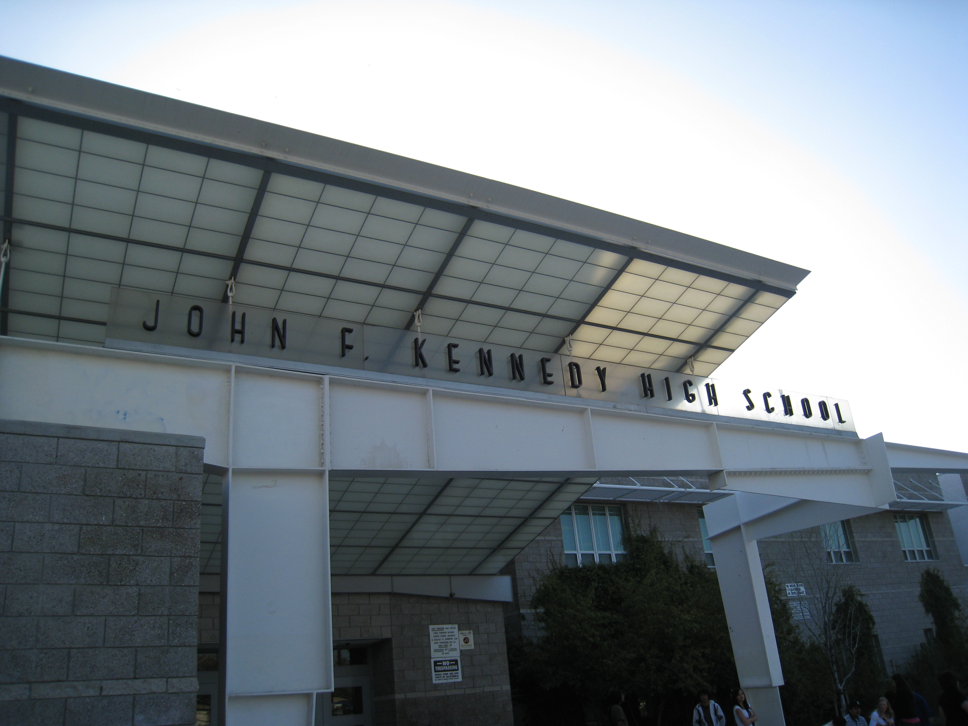 A photo of John F. Kennedy High School (Los Angeles) by Regret Tenenbaum (Regret Tenenbaum).